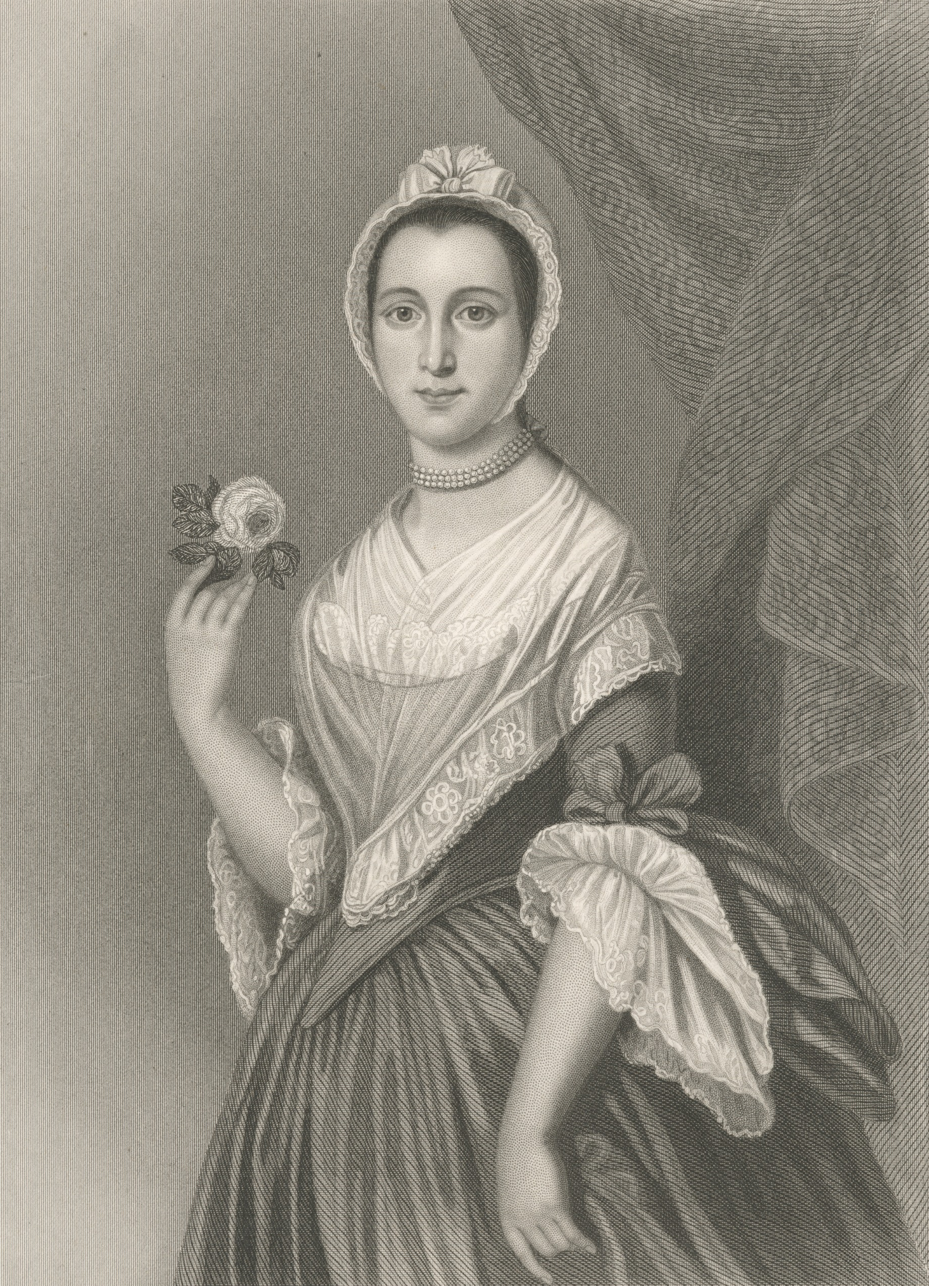 Includes photomechanical reproductions. Printmakers include William Birch, Asher B. Durand, Henry Bryan Hall, Charles Hullmandel, James Barton Longacre, Albert Rosenthal, Max Rosenthal & John Sartain. Draughtsmen include David McNeely Stauffer. Title from Calendar of Emmet Collection. EM10006